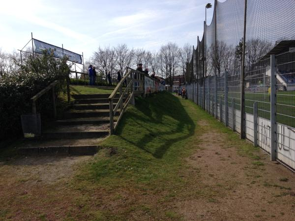 A stand behind a goal at the TimePartner Arena in Cloppenburg